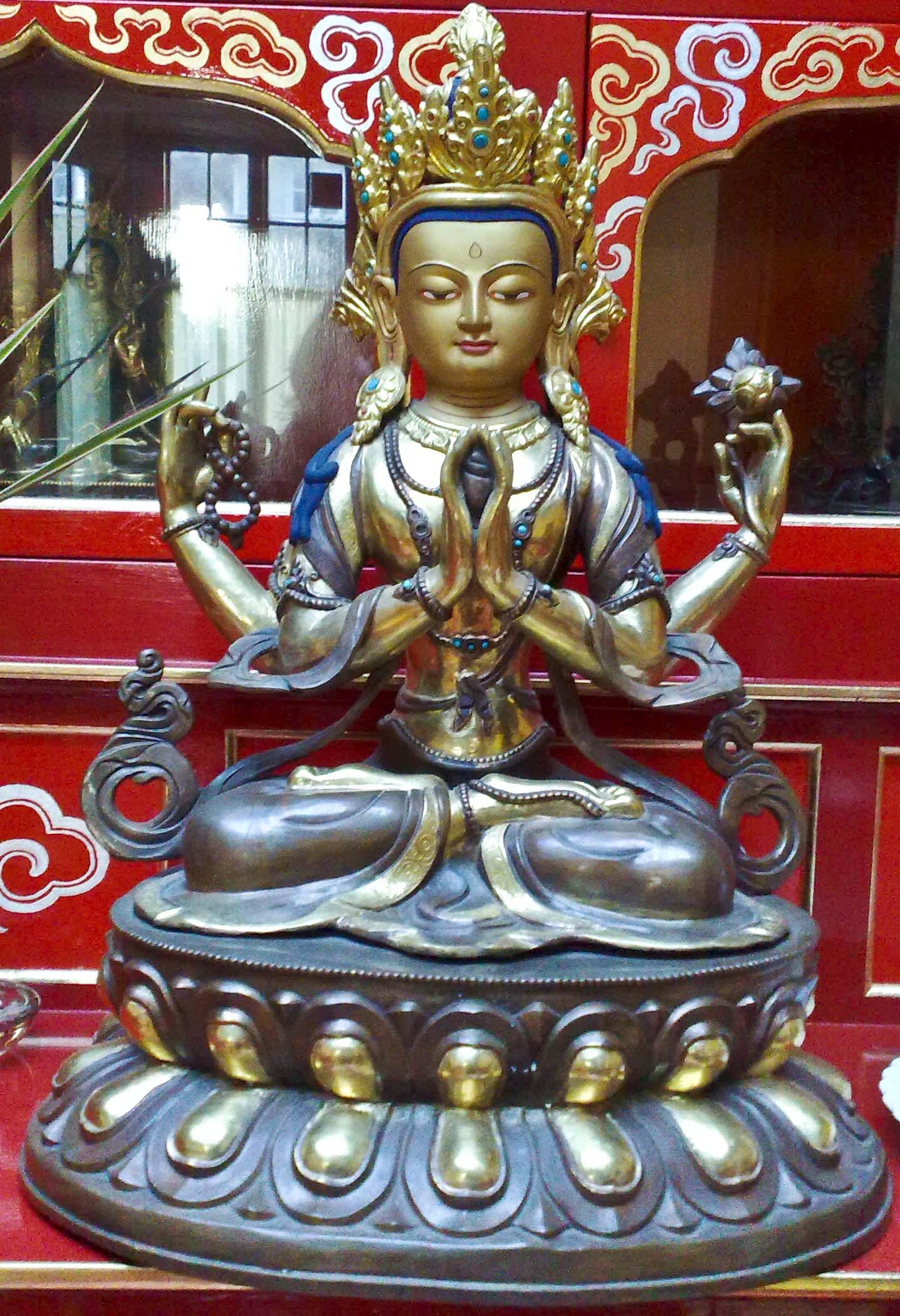 4 armed Chenrezig. Shrine at Samye Dzong London, Manor Place SE17.